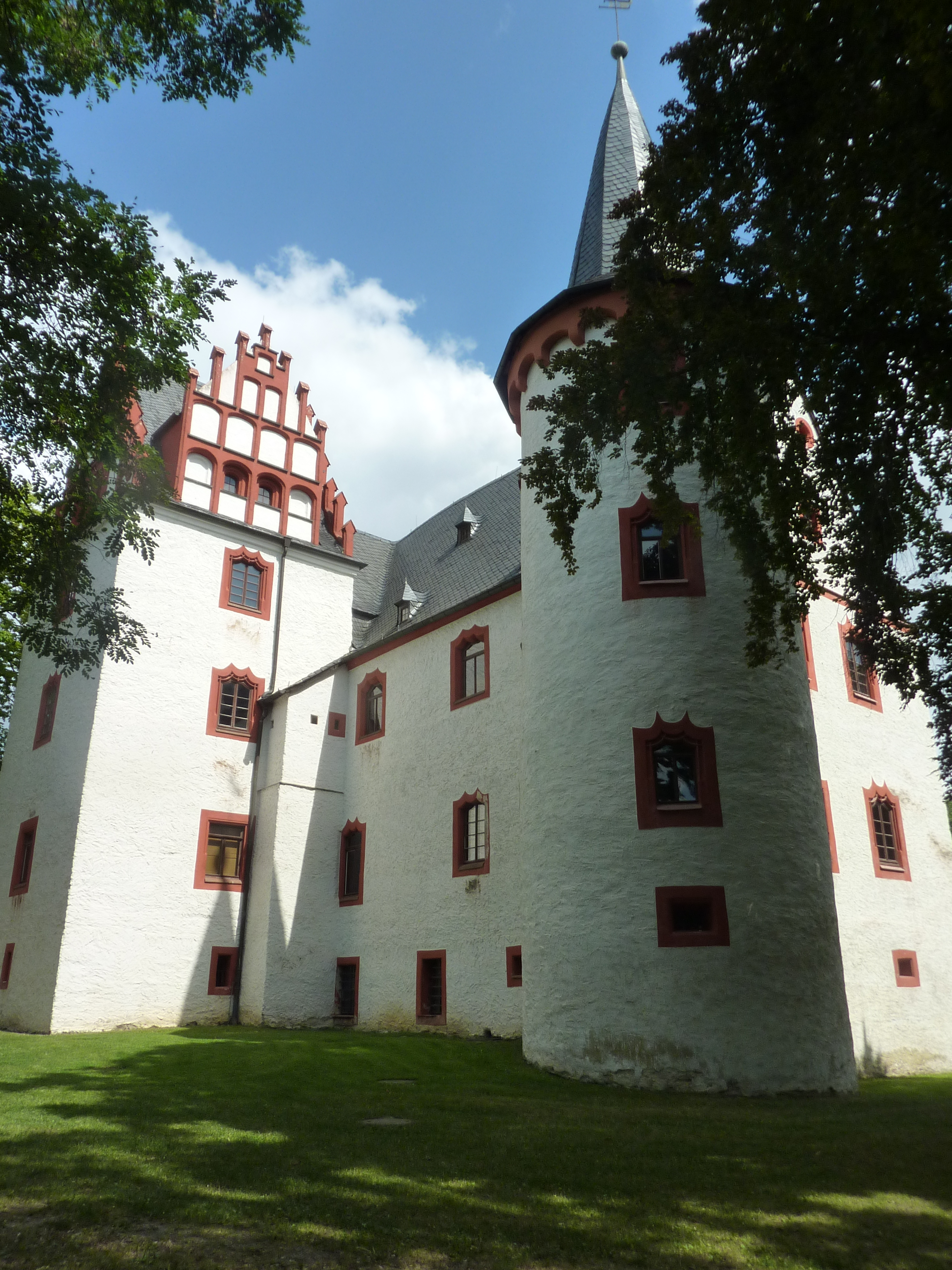 Castle of Netzschkau, Vogtland (Saxony), Germany